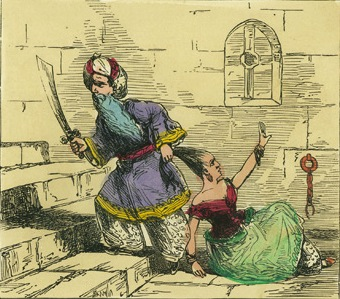 From the History of Bluebeard, printed by Evans, Edmund, published by Routledge, Warne, & Routledege c. 1880